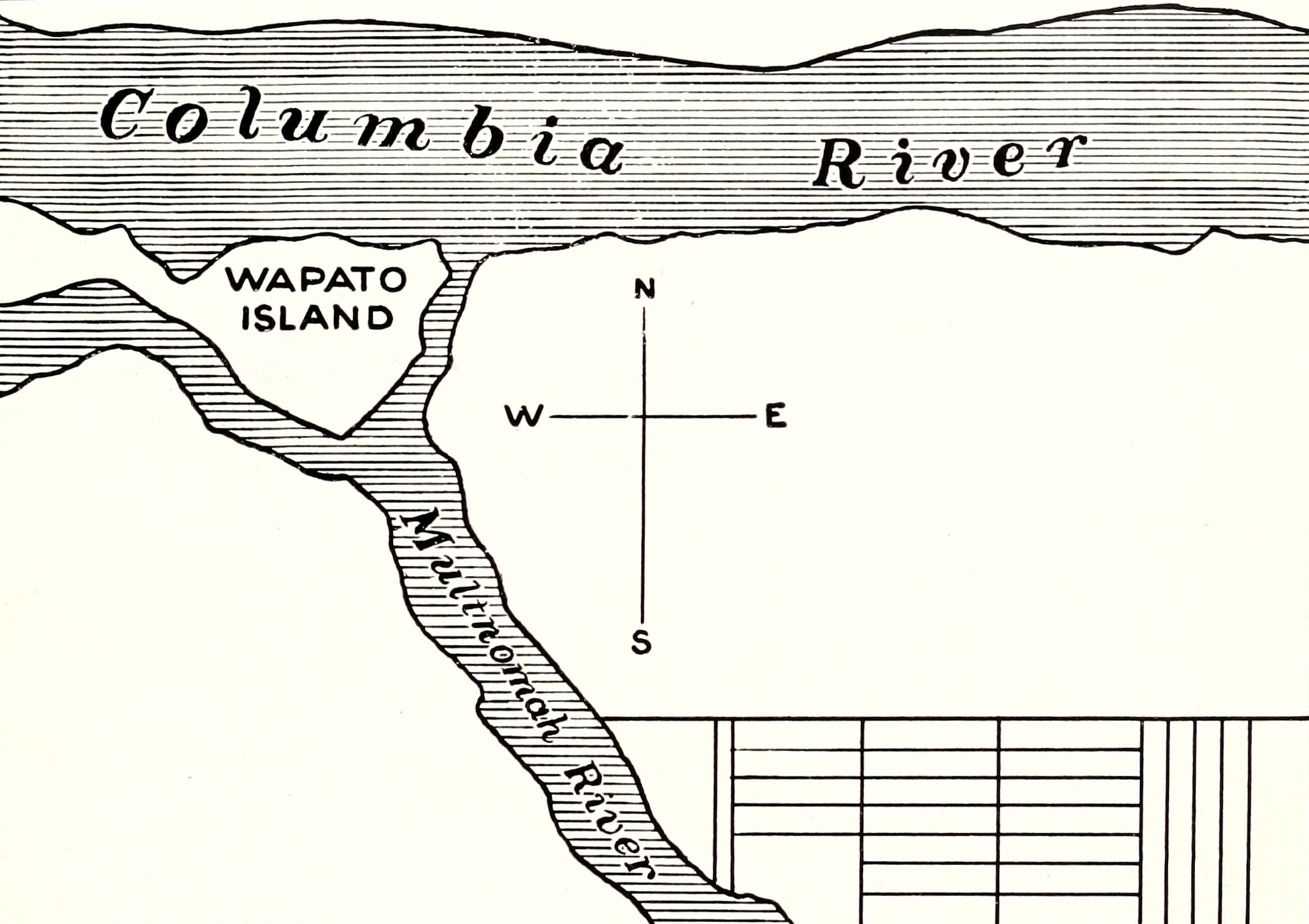 Hall Kelley's town, 1834. From Gaston's Portland, Oregon, its History and Builders, volume 1 (scan p. 261)